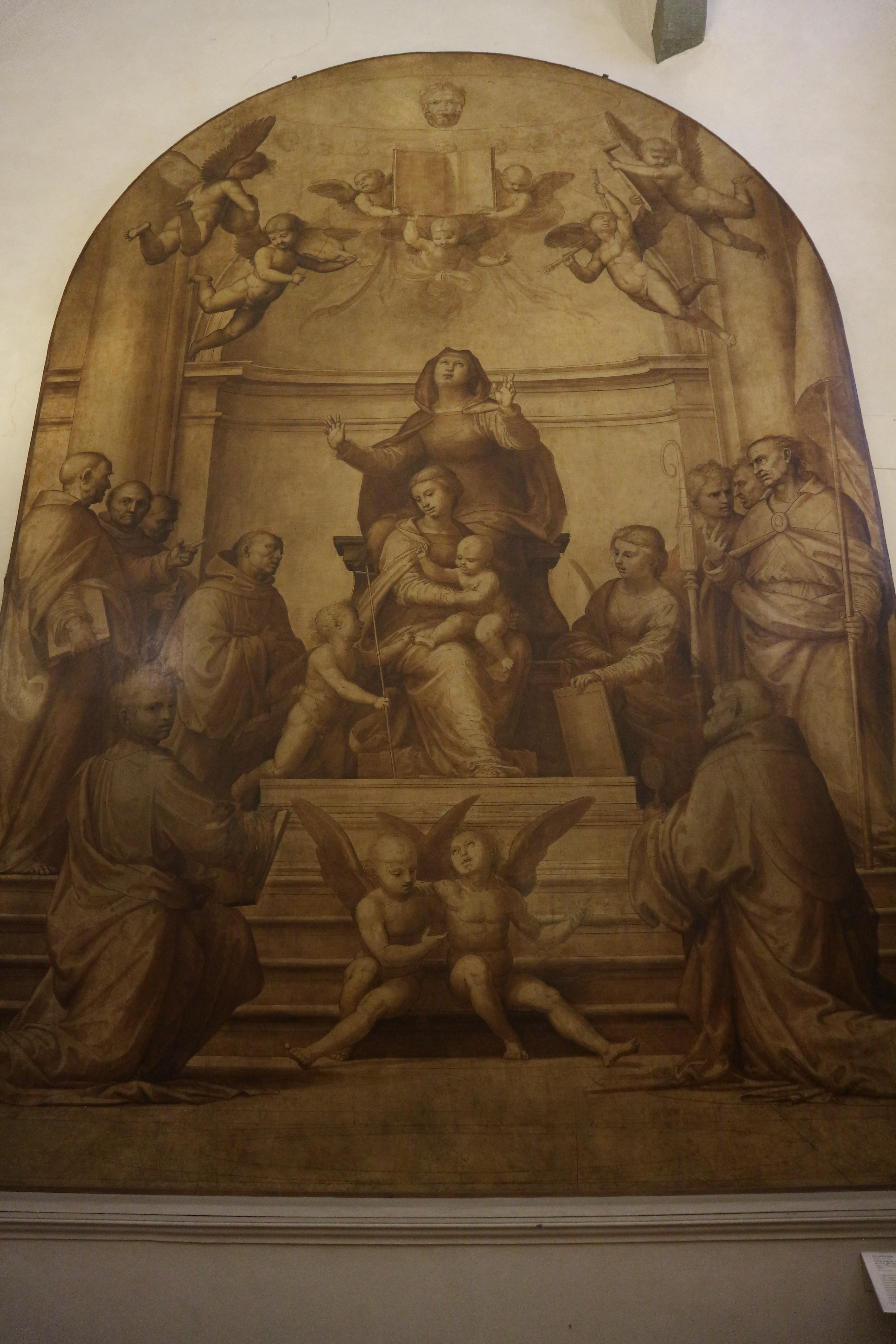 Fra Bartolomeo, Pala della Signoria, 1510, Firenze, Museo di San Marco